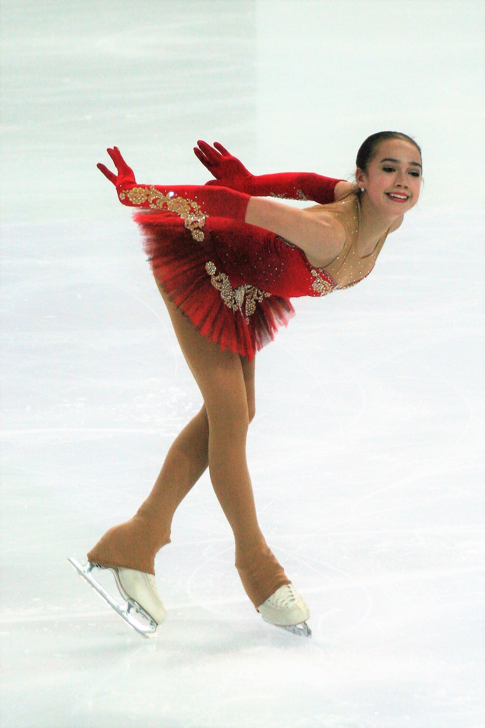 Alina Zagitova at the Junior Grand Prix Final 2016 - Free program